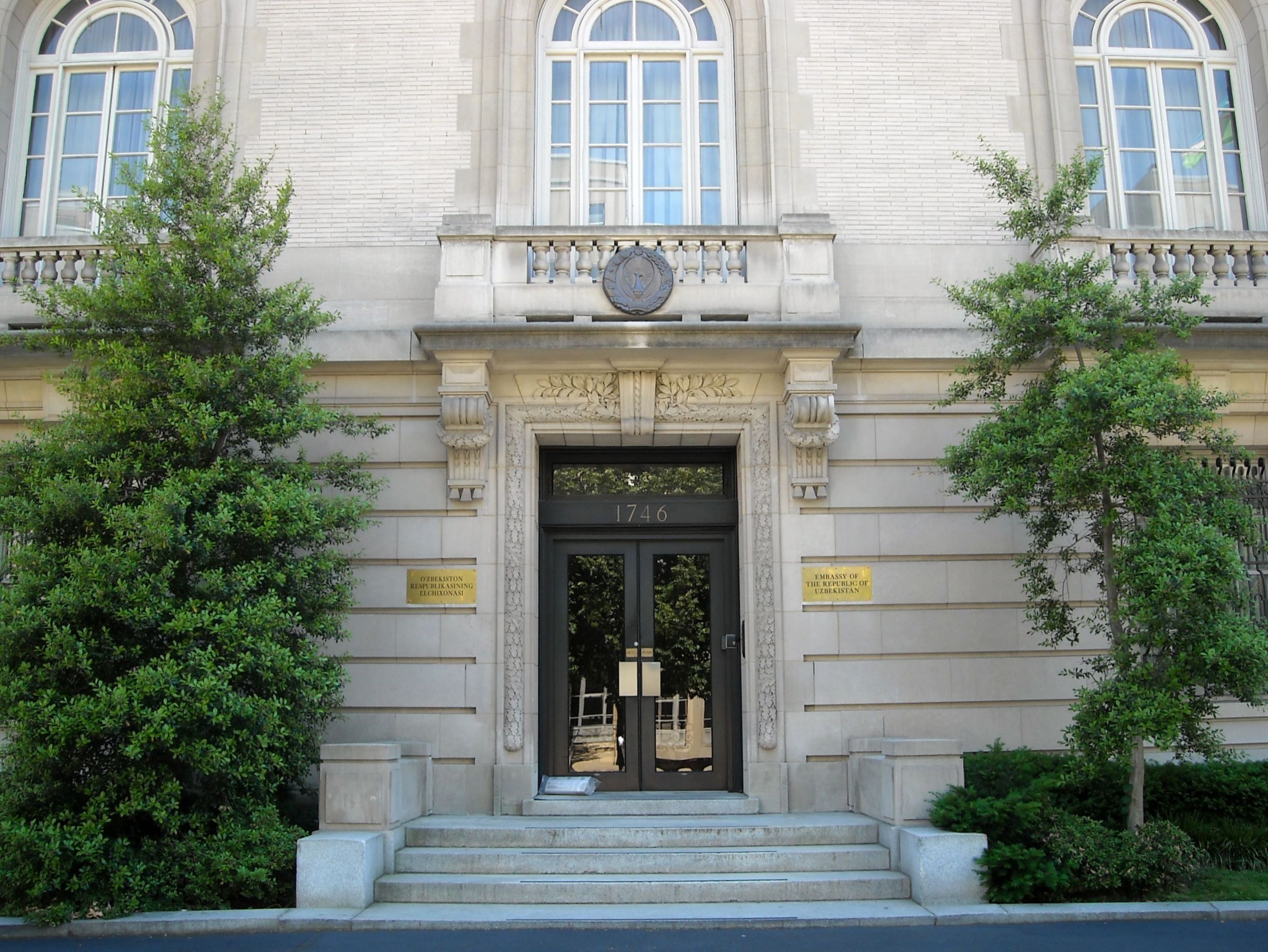 Entrance to the Embassy of Uzbekistan in Washington, D.C.